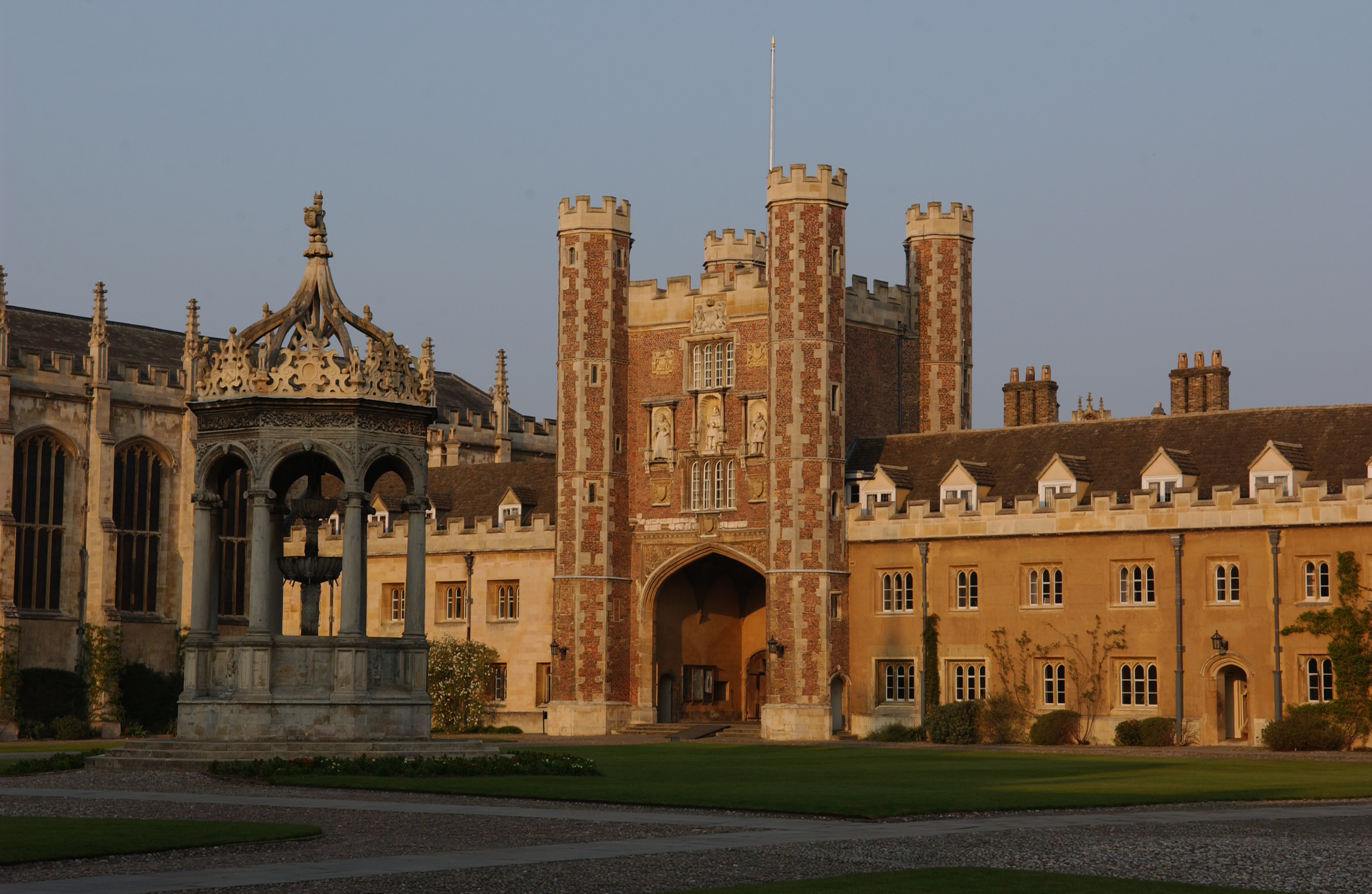 Trinity College Great Gate & Great Court